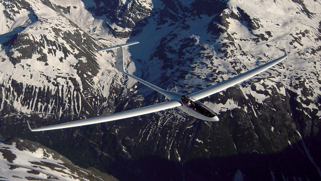 GLider SZD-56 Diana 2 over Italian Alps